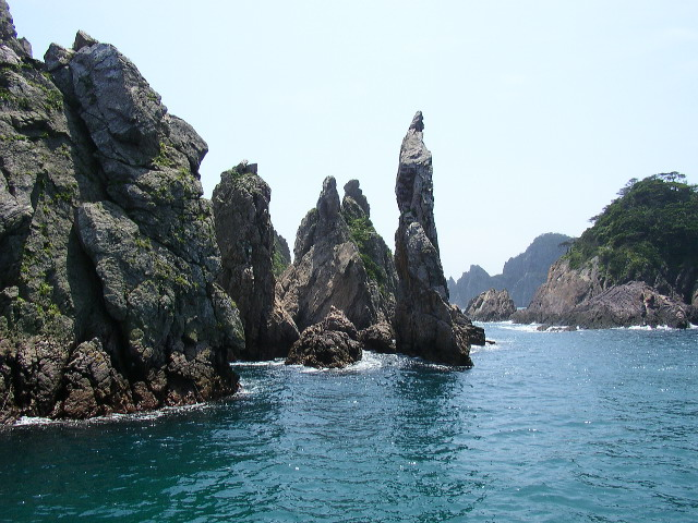 Fantastic Rocks near Hong-do Island